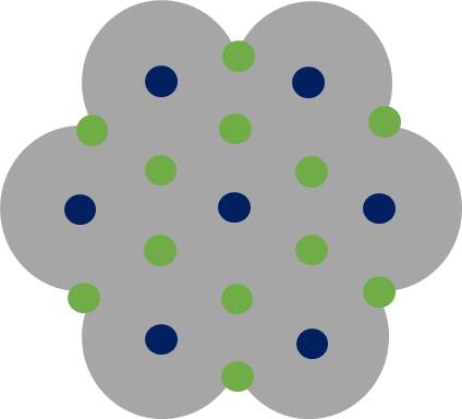 Honeycomb structure patterning for density tripling using spacers on a triangular lattice, naturally fitting the ~7F2 form factor of DRAM cells. The blue dots are the mandrels, and the green dots are defined by the gray spacers on the mandrels. Ref.: J. M. Park et al., IEDM 2015; US Patent 8541316. DRAM cell locations fit on triangular lattice.